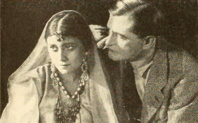 Still from the American silent film Without Benefit of Clergy (1921) with Thomas Holding and Virginia Brown Faire, on page 56 of the September 1921 Photoplay.